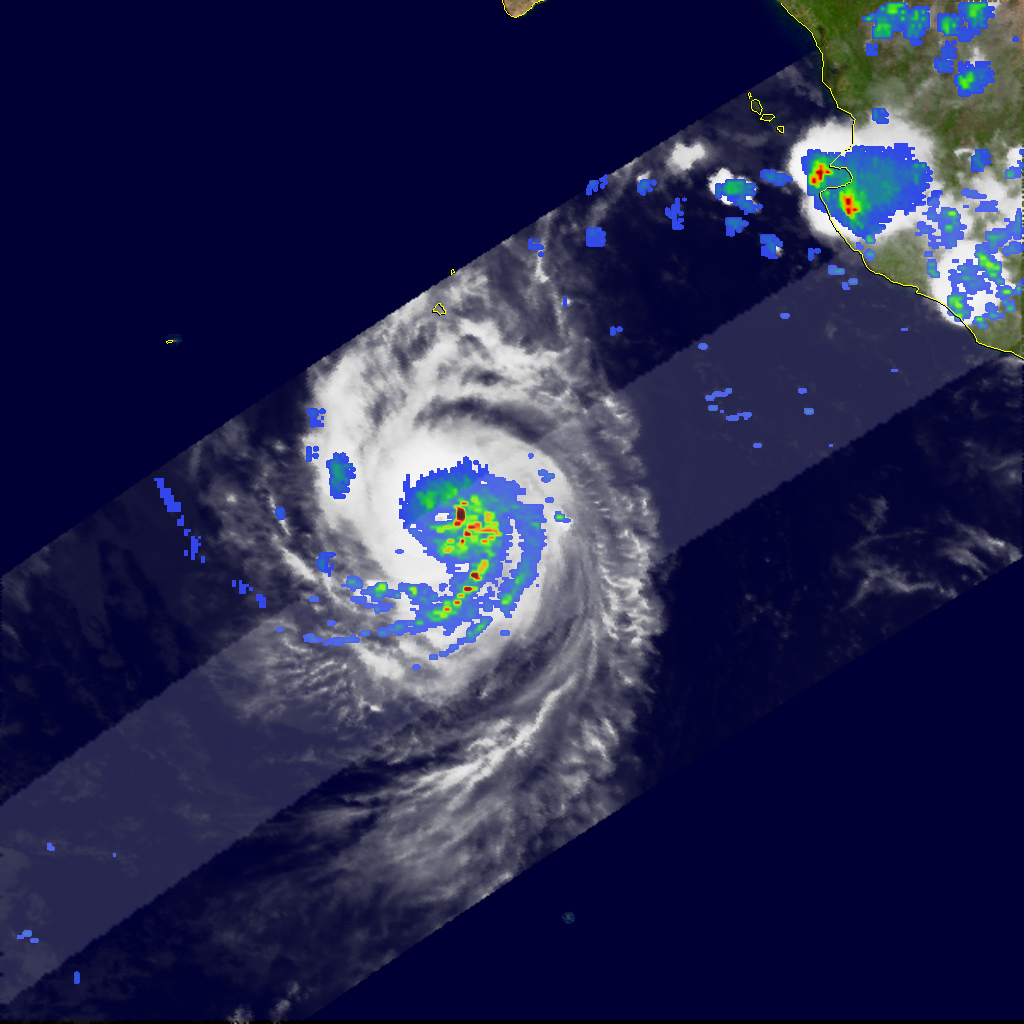 Hurricane Paul, the 10th hurricane of the season in the East Pacific, began as a tropical depression (area of unusually low air pressure at the ocean surface) during the early morning hours of October 21, 2006 (local time), about 265 miles south-southwest of Manzanillo, Mexico. Paul reached hurricane intensity on the afternoon (local time) of October 22. The Tropical Rainfall Measuring Mission (TRMM) satellite captured this image of Paul at 5:15 p.m. Pacific Daylight Time on October 22 (00:15 UTC, October 23), as the storm was transitioning from a tropical storm into a hurricane. The image is a top-down view of where the heaviest rain was occurring. Rain rates in the center of the swath come from the TRMM Precipitation Radar, while those in the outer swath are from the TRMM Microwave Imager. These rain rates are overlaid on infrared data from the TRMM Visible Infrared Scanner. A small eye is visible near the center of the storm, with several moderate-intensity bands of rain (green arcs) spiraling inward from the south. These rainbands are the tell-tale signs of a developed circulation. Scattered areas of heavy rain (shown in red) are also evident, including one in the storm’s eyewall (central ring of clouds) just to the east of the center. At the time of this image, the National Hurricane Center (NHC) estimated Paul had sustained winds of 55 knots (63 miles per hour). Paul became a hurricane just a few hours later. From its low-earth orbit, TRMM has been providing valuable images and information on tropical cyclones around the Tropics since 1997, especially over open ocean where direct observations are limited. TRMM is a joint mission between NASA and the Japanese space agency, JAXA.